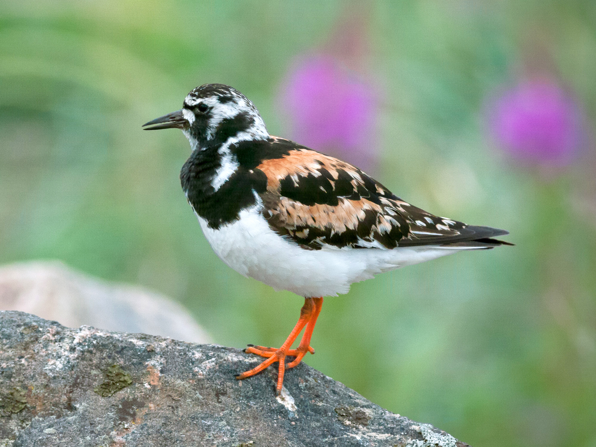 Ruddy Turnstone (Arenaria interpres interpres), Hailuoto, Northern Ostrobothnia, Finland